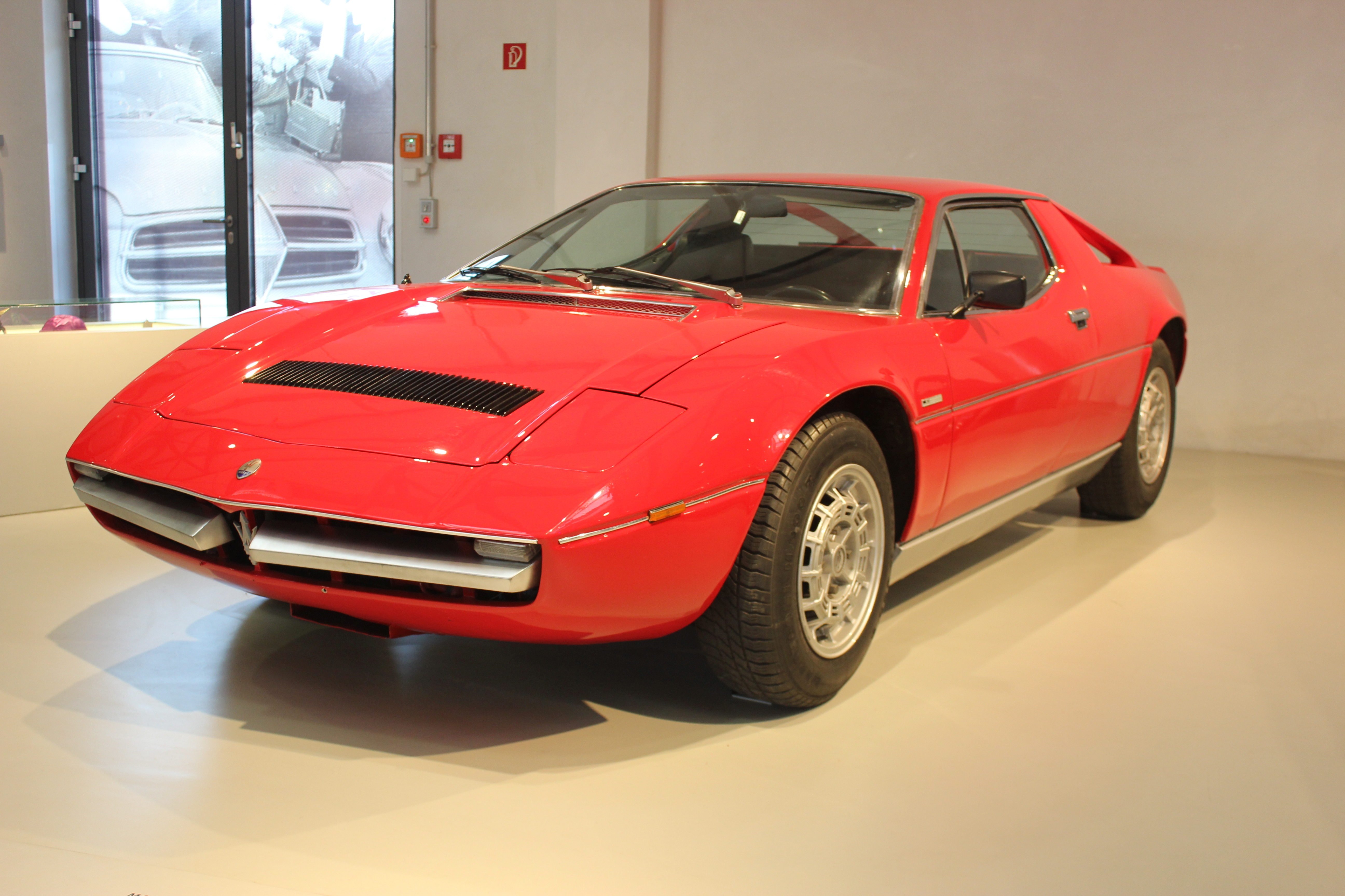 Berlin - German Museum of Technology - Maserati Merak SS (1975)